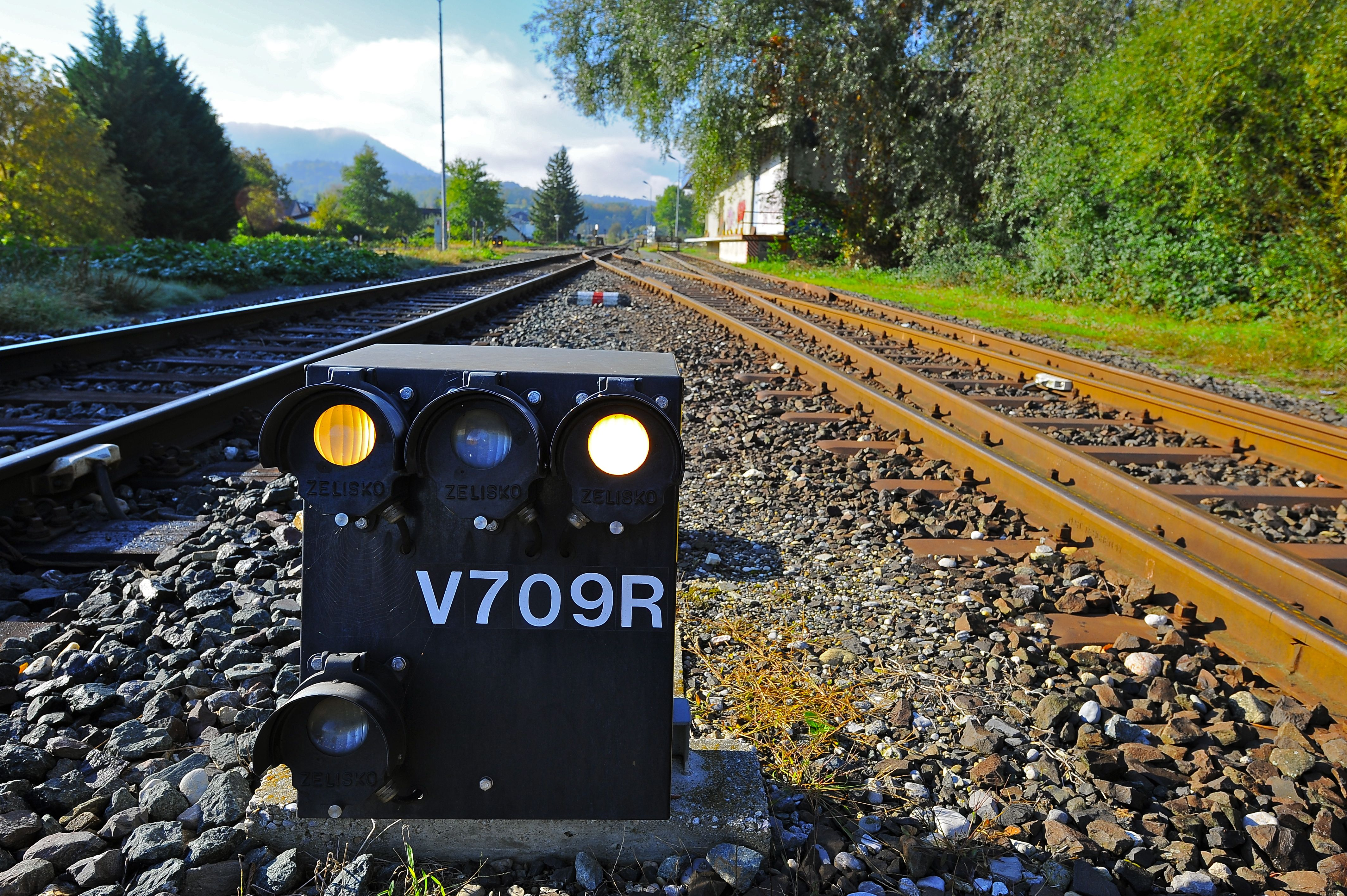 Signal system near the station Viktring an the Rosentalbahn II in the 11th district "Sankt Ruprecht" of the Carinthian capital Klagenfurt, Carinthia, Austria